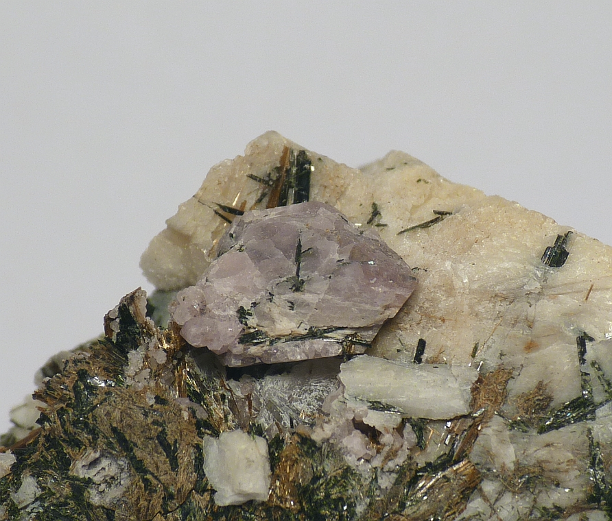 Wadeite Locality: Eveslogchorr Mt, Khibiny Massif, Murmansk Oblast, Russia Field of view 3 cm. Specimen and photo Leon Hupperichs.